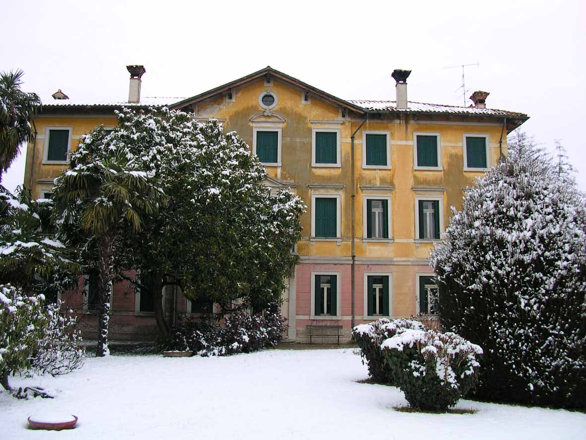 S.Maria_la_Longa,_villa_Turchetti_Vintani